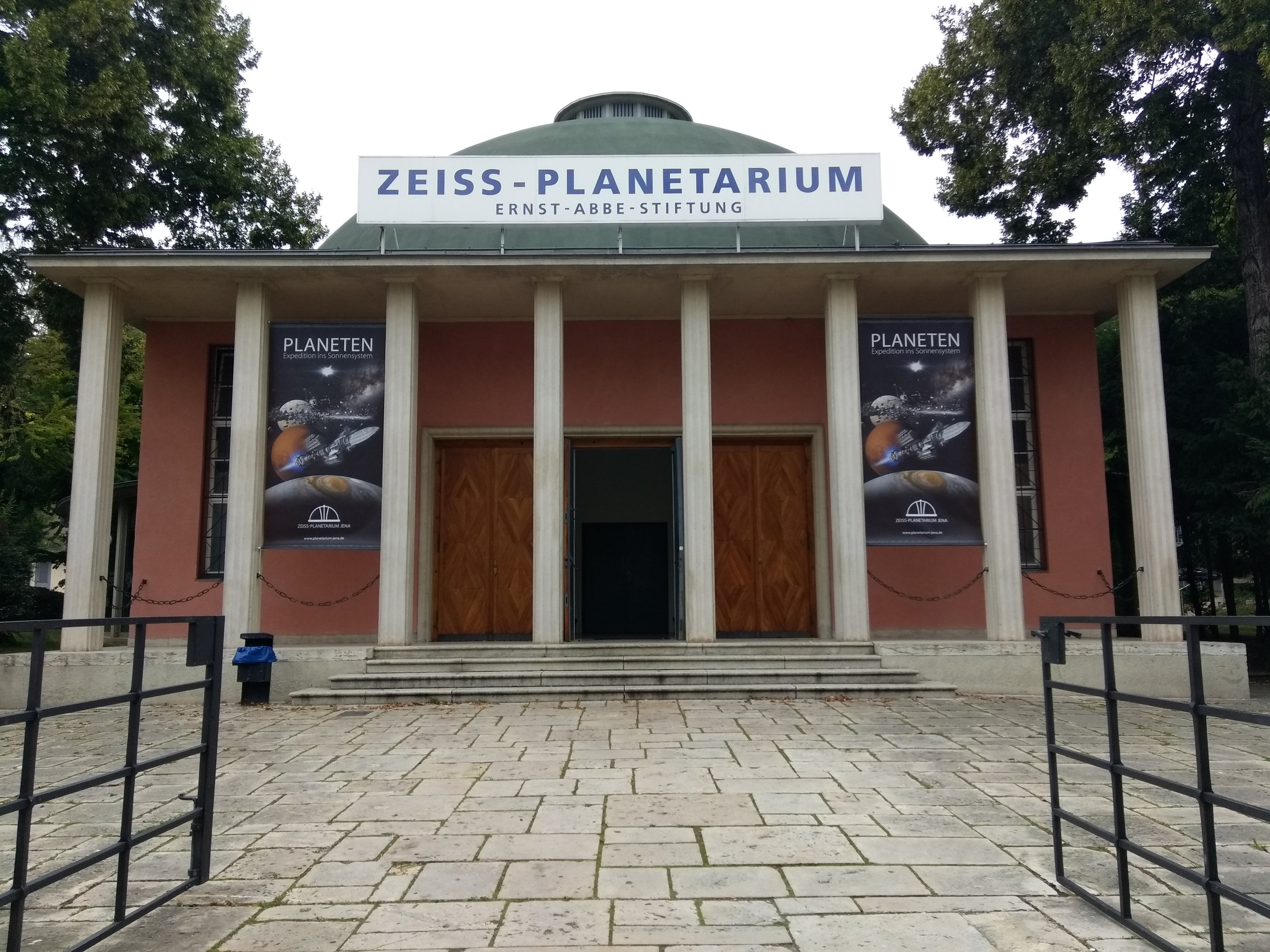 The Zeiss Planetarium in Jena is the world's most operated planetarium. It was opened on 18 July 1926. The Zeiss planetarium is a projection planetarium, in which the fixed stars and the planets are projected onto the inside of a white dome. The owner and operator of the Planetarium is the Ernst Abbe Foundation.